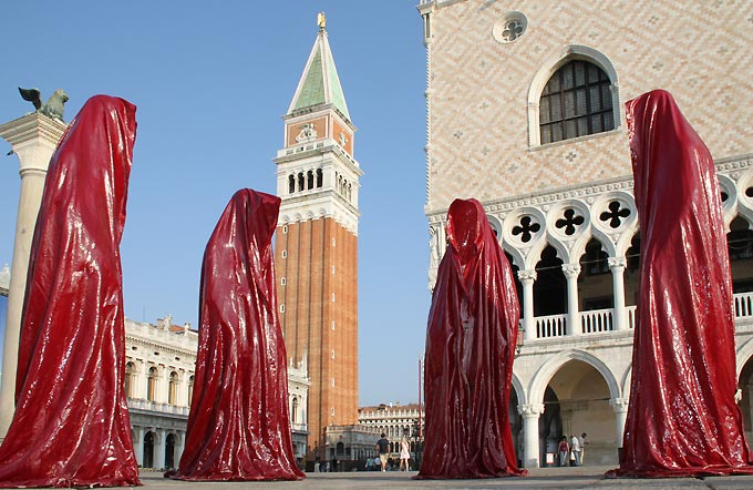 The light art project “time guards” Madonna and sisters by Manfred Kielnhofer on tour in Venice St. Mark's Square